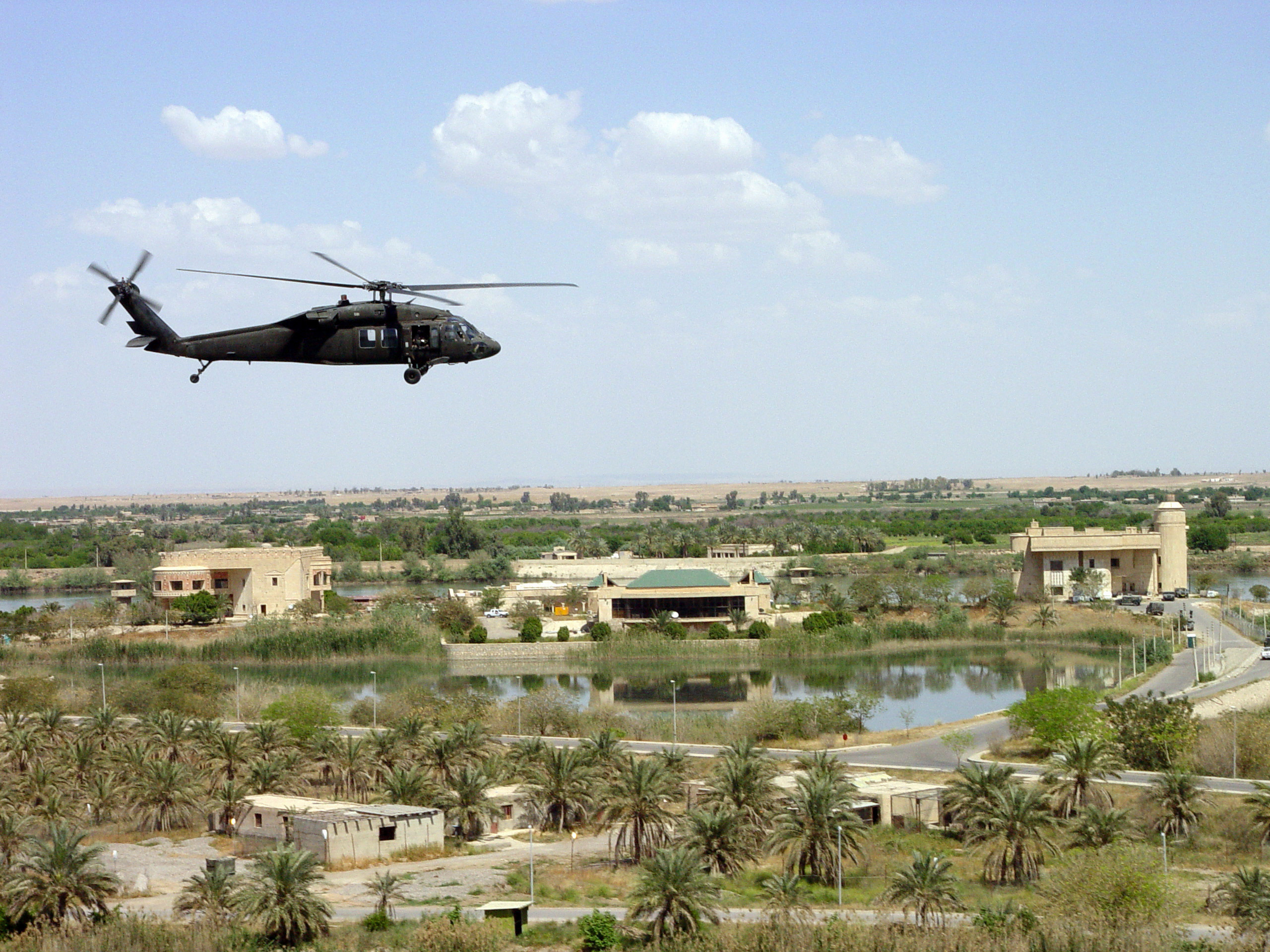 A US Army (USA) UH-60 Blackhawk helicopter flies past one of palaces of former Iraqi dictator, Saddam Hussein, located near the city of Tikrit, Iraq.